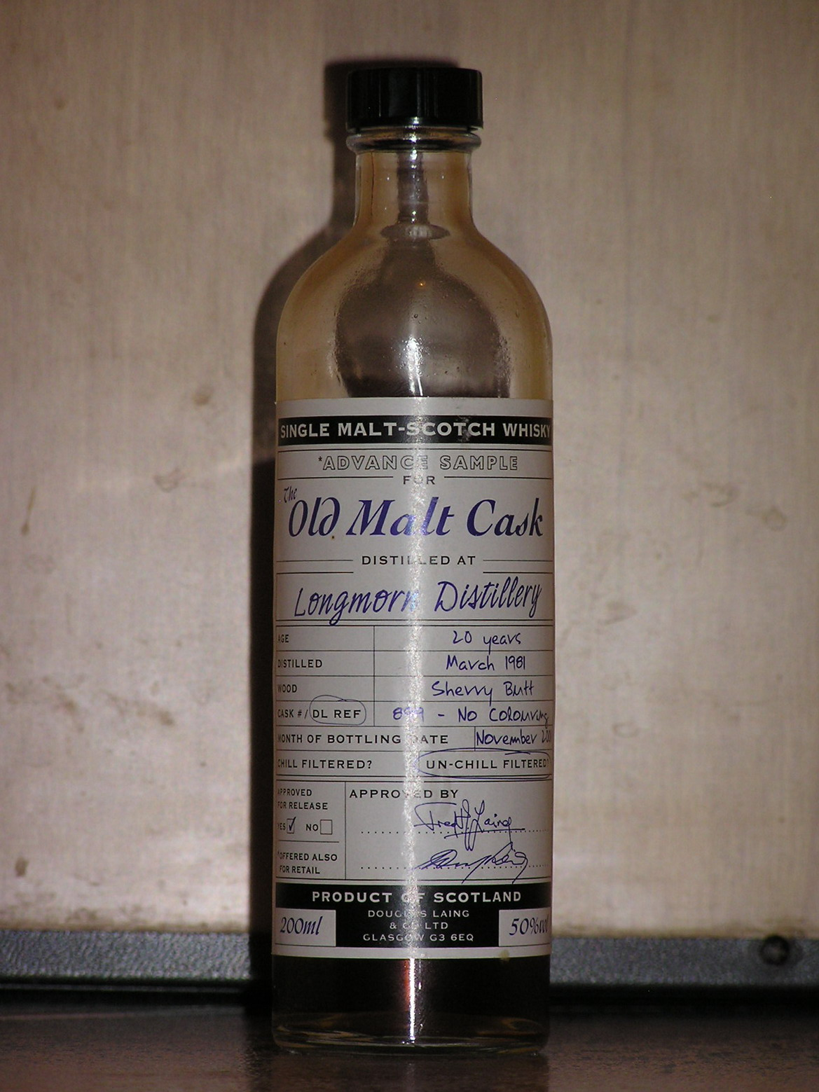 200 ml Advanced Sample of Old Malt Cask scotch whisky by Longmorn Distillery